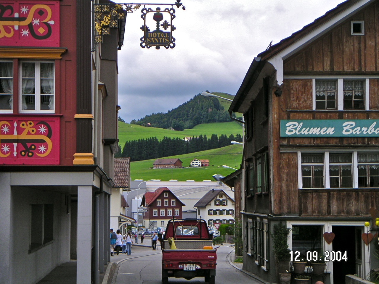 Appenzell is the capital of the canton of Appenzell Innerrhoden in Switzerland. Appenzell has no municipal government of its own; rather, the different parts of Appenzell belong to the districts Appenzell, Schwende and Rüte. Because of that, for firefighting, energy and water, the town Appenzell has a special-purpose municipality, the Feuerschaugemeinde. In 1071 the town was referred to as Abbacella. By 1223 this changed to Abbatiscella, meaning the Abbot's cell. This refers to the landlord of the abbey. The buildings in the village core, the parish church, the 1563 town hall, the Salesis house, the ruins of Castle Clanx and the state archives with the administration building are listed as heritage sites of national significance.